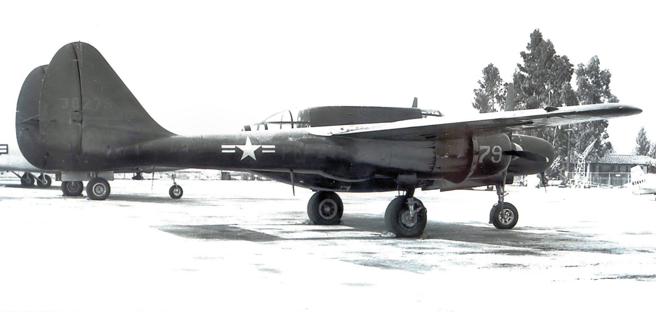 318th FIghter Squadron Northrop P-61B-20-NO Black Widow 43-8279, Hamilton Field, California, December 1947. This aircraft was struck from the USAF inventory on 20 December 1948